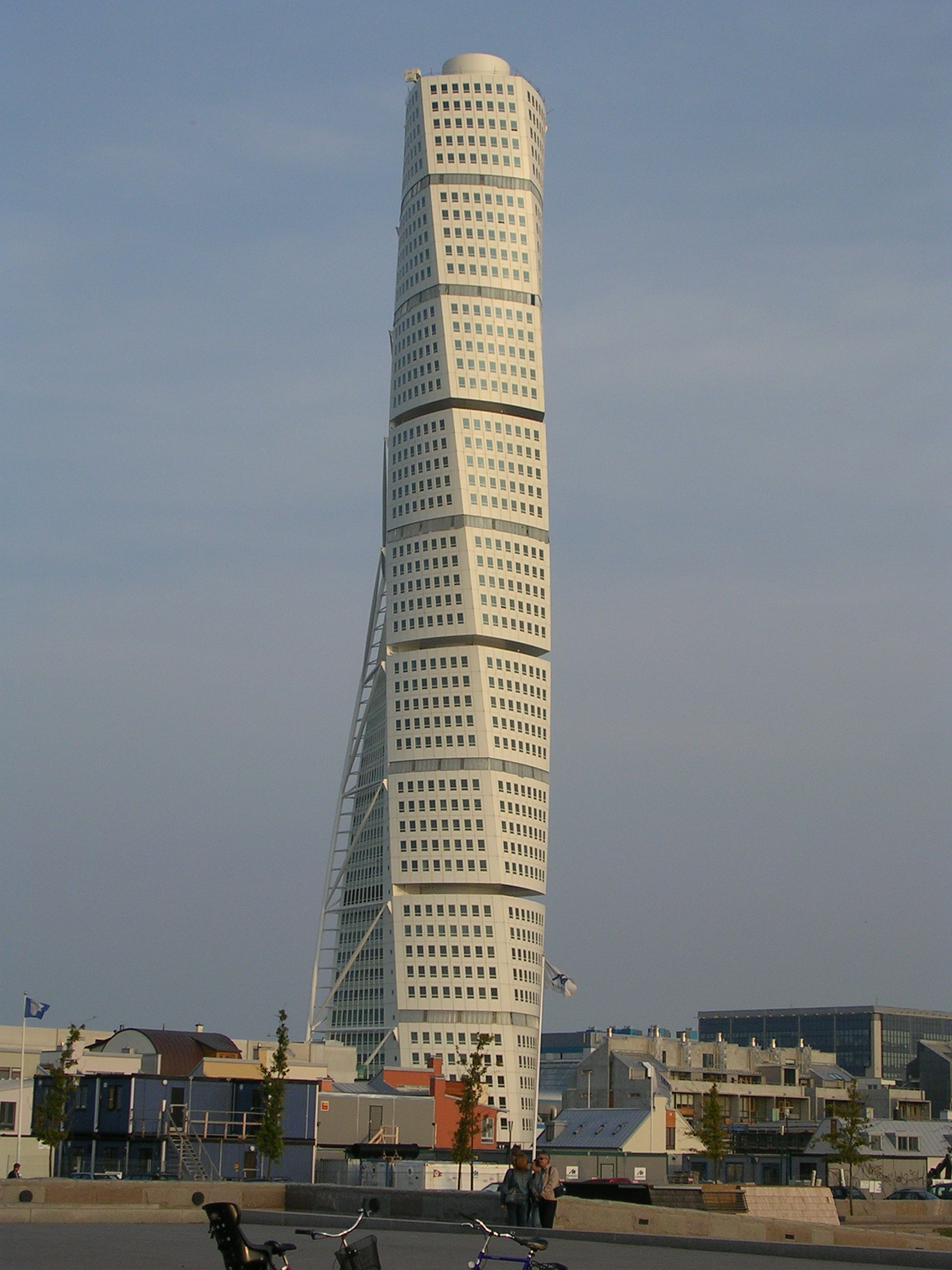 Turning Torso and Bo01 in Malmö. Date: September 2001 Author: Väsk